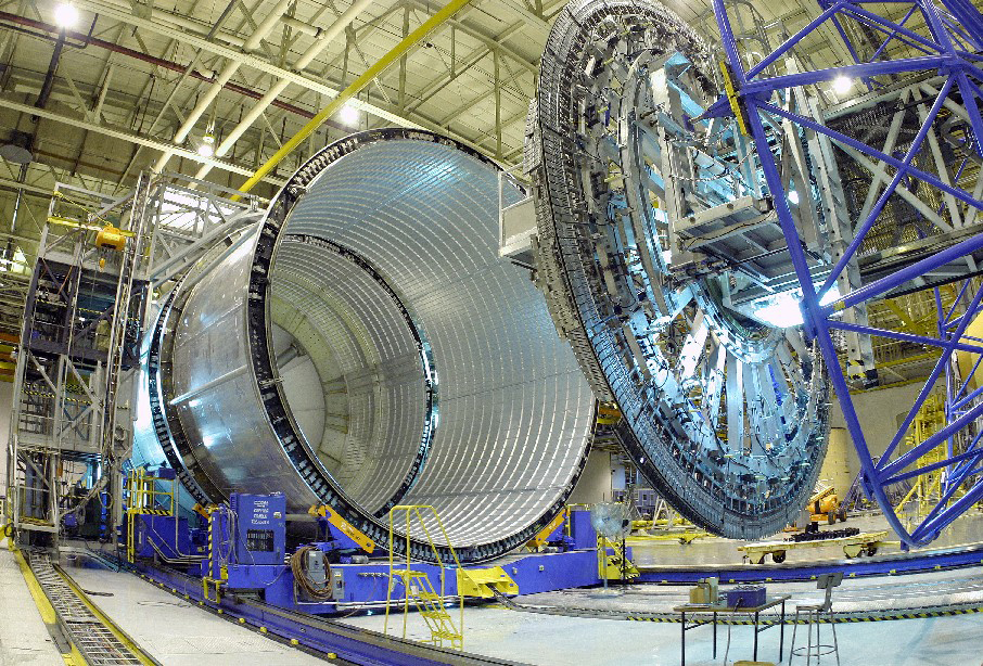 Space Shuttle external tank assembly